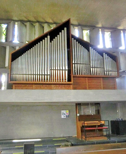 Organ of Chriskönig church, Roden